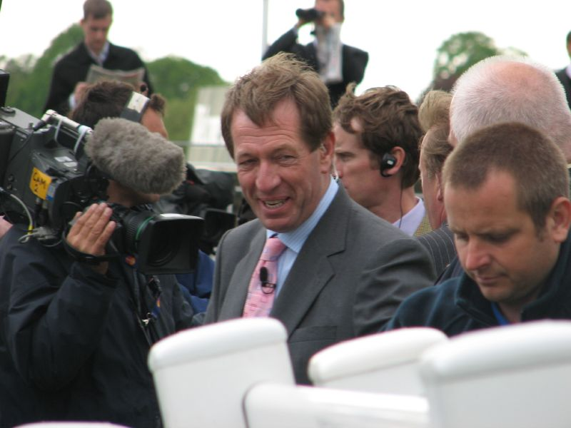 Horse racing commentator Derek Thompson in York on 18 May 2006